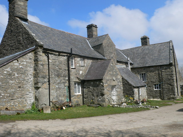 Gilar Built in the early 1600s, Gilar was the seat of the High Sheriff of Denbighshire. It is still a working farm, but also takes holiday visitors.